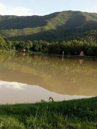 Sunsine view of Jakhera lake नेपाली: सूर्योदको समय जखेरा ताल